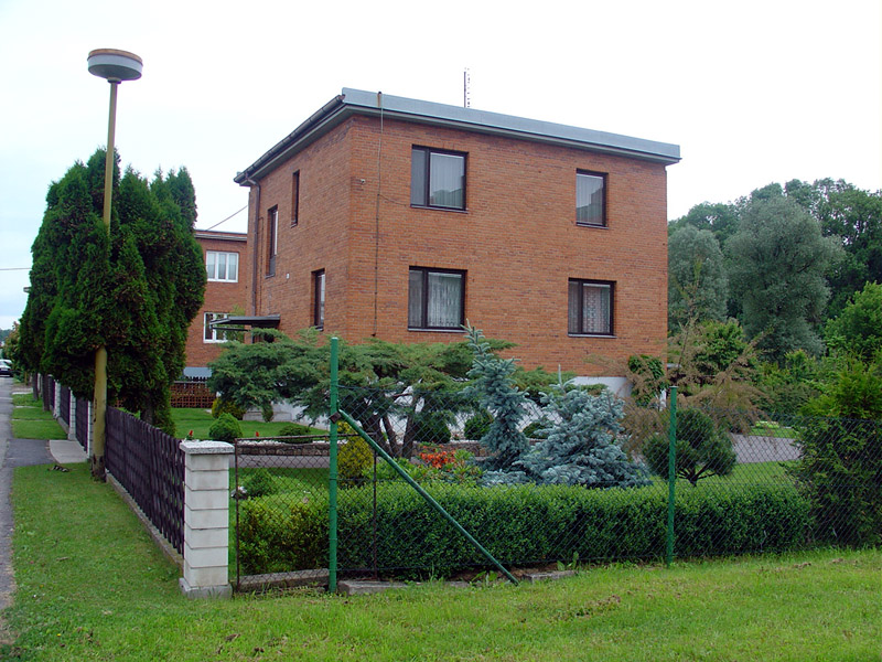 Typical family houses in Otrokovice, Czech Republic